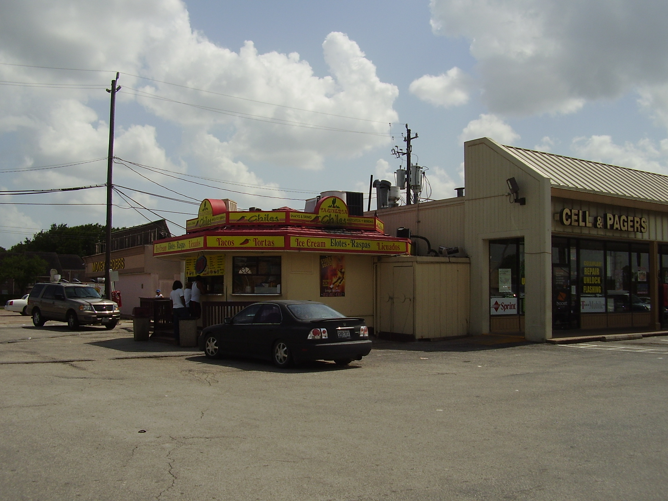 A shopping center in Gulfton - Intersection of Gulfton Drive and Renwick Drive